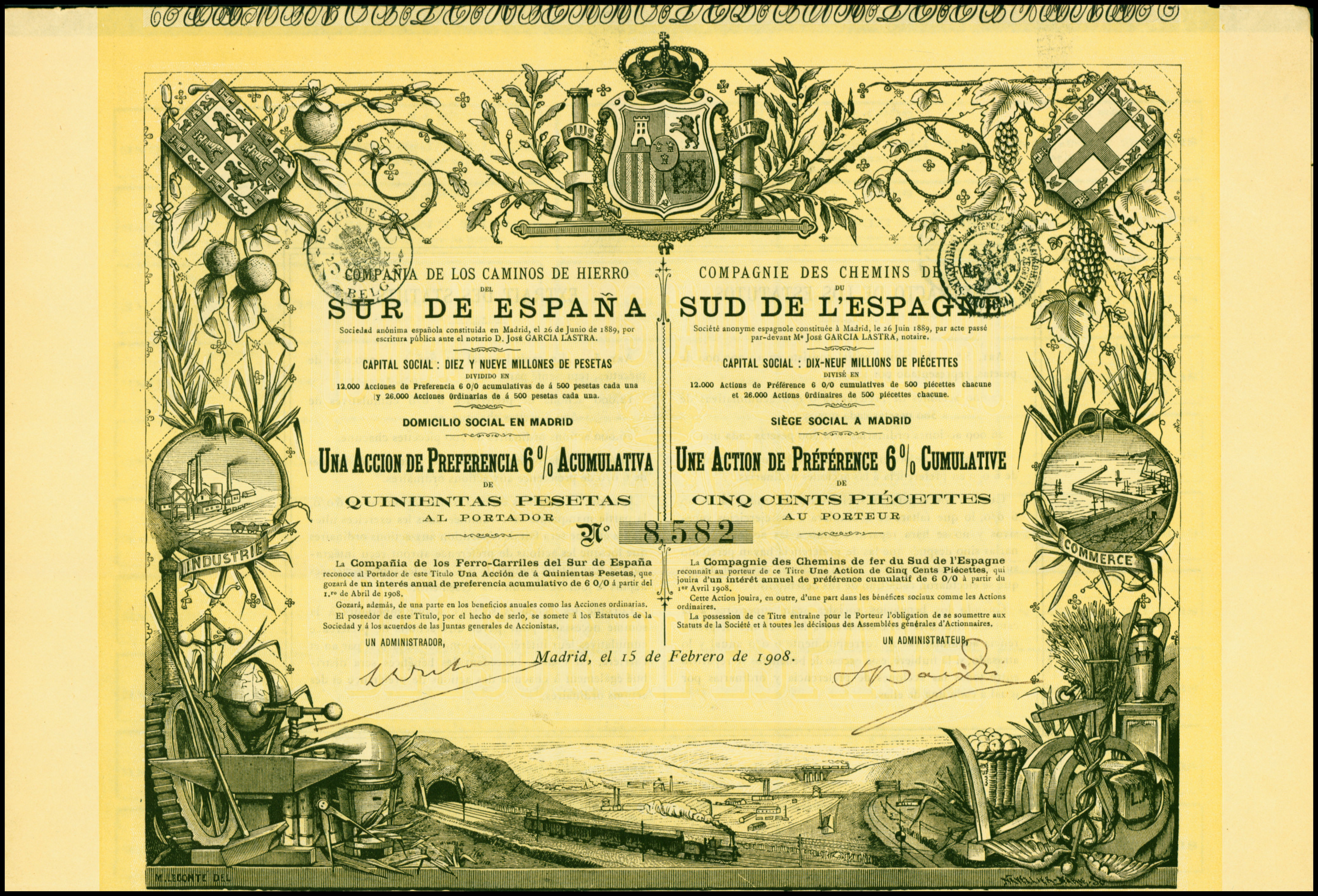 Preferred share of the Compañía de los Caminos de Hierro del Sur de España, issued 15. February 1908